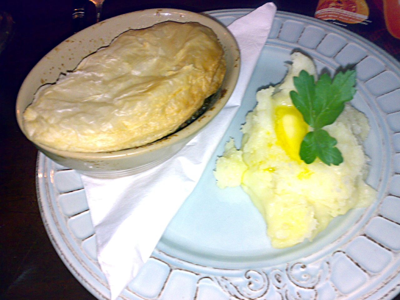 Game pie at Roseleaf Bar come Cafe in Leith, Edinburgh